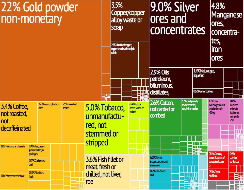 Tanzania Export Treemap from MIT Harvard Economic Complexity Observatory